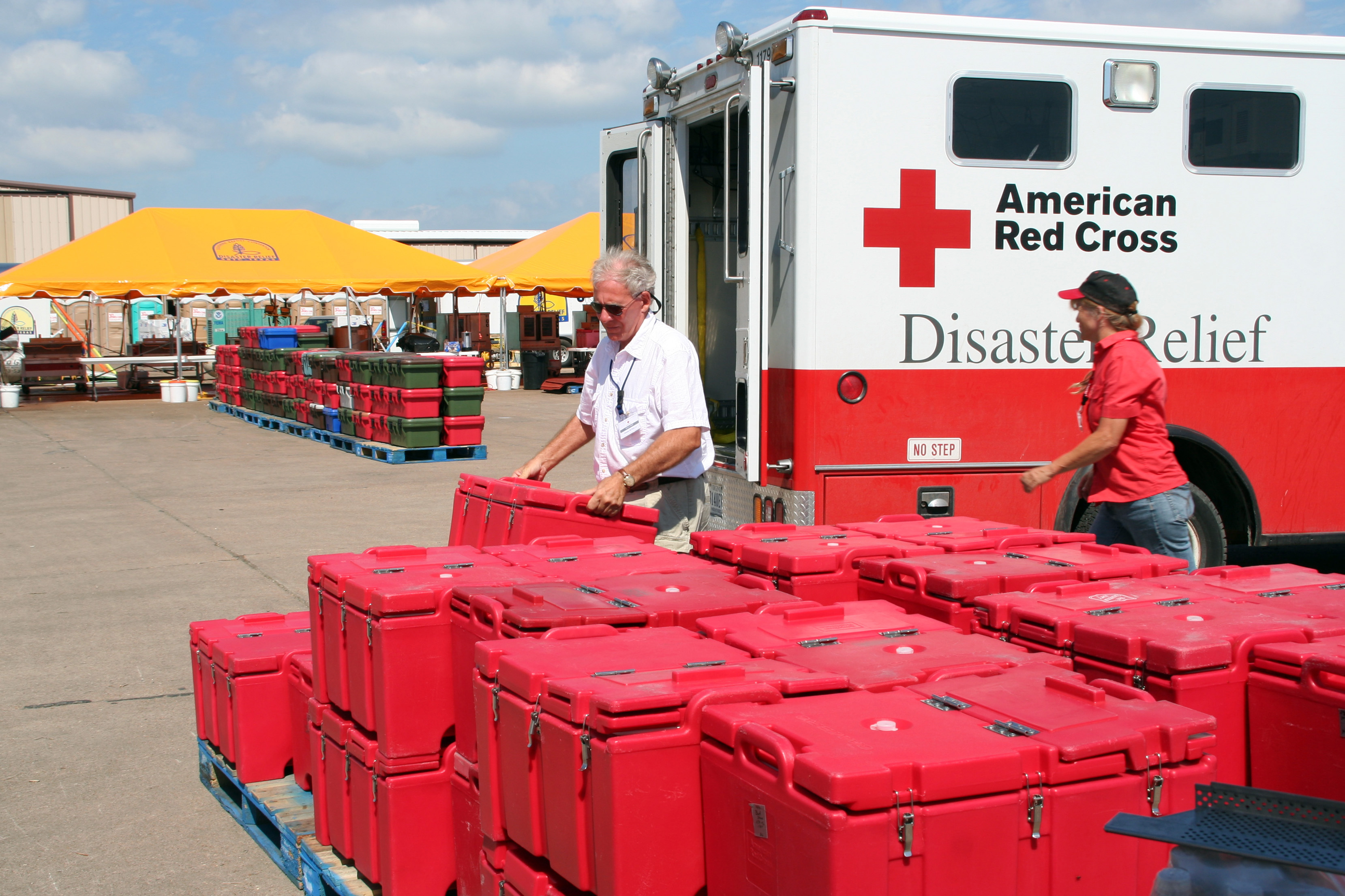 Galveston, TX, October 10, 2008 -- Food prepared by Southern Baptist Convention volunteers is loaded onto a Red Cross IRV for distribution in Galveston. Working with The Salvation Army, this kitchen has prepared over one million meals since September 14, the day after Hurricane Ike struck. FEMA photo by Greg Henshall